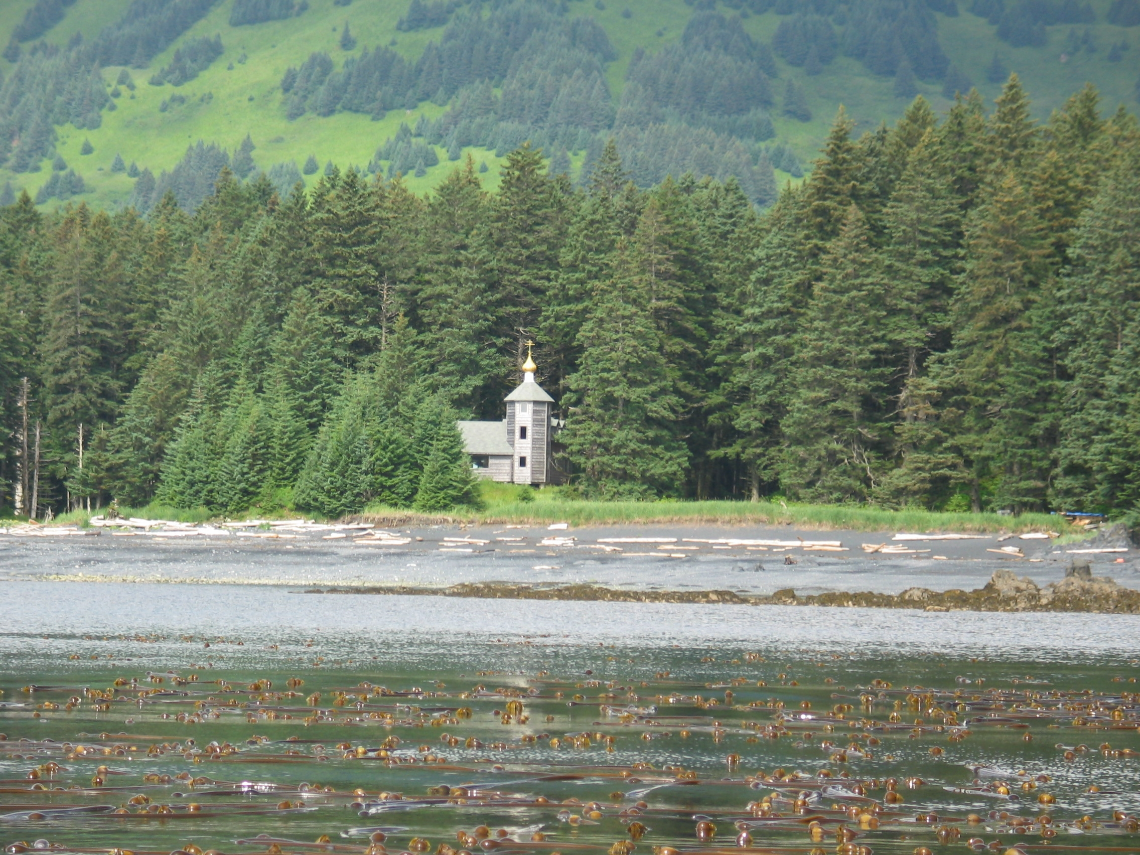 Russian Orthodox Church monastery at Monk's Lagoon on Icon Bay, Spruce Island, Alaska. The monastic building on Monks Lagoon contains a trapeza, chapel, small library, and sleeping quarters for people visiting St. Michael’s Skete, St. Nilus Skete and Saints Sergius and Herman of Valaam Chapel, built in 1898 over the site where St. Herman was buried on Spruce Island in December 1836. Pilgrims from around the world are coming to Spruce Island to commemorate America's first saint, Saint Herman of Alaska. Note Nereocystis luetkeana kelp in foreground.